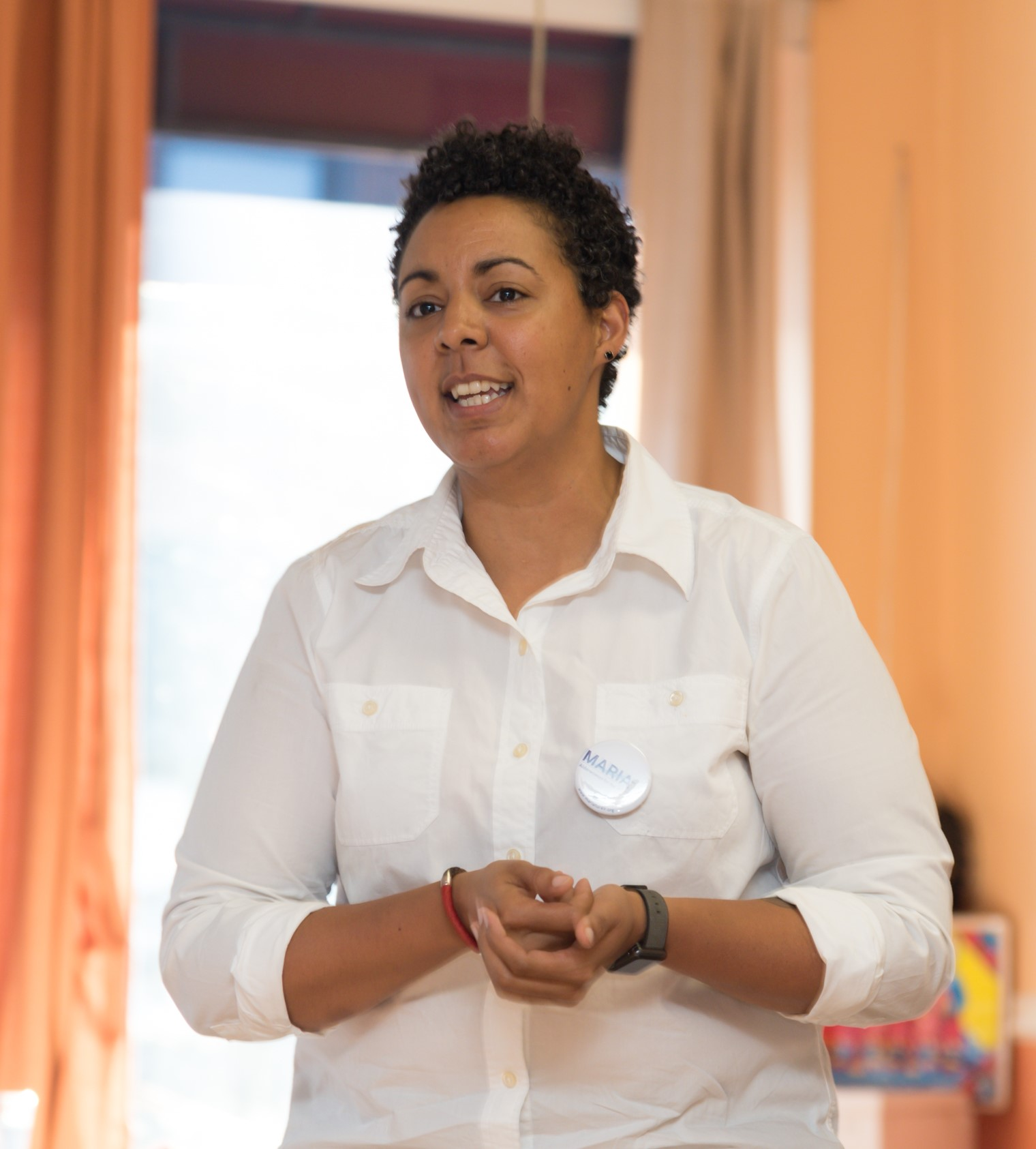 Photo of Maria Hadden speaking at a July 15, 2018 fundraiser event at Den Den Restaurant in Chicago, Illinois. Photo by Sarah-Ji Rhee. Cropped from the original.